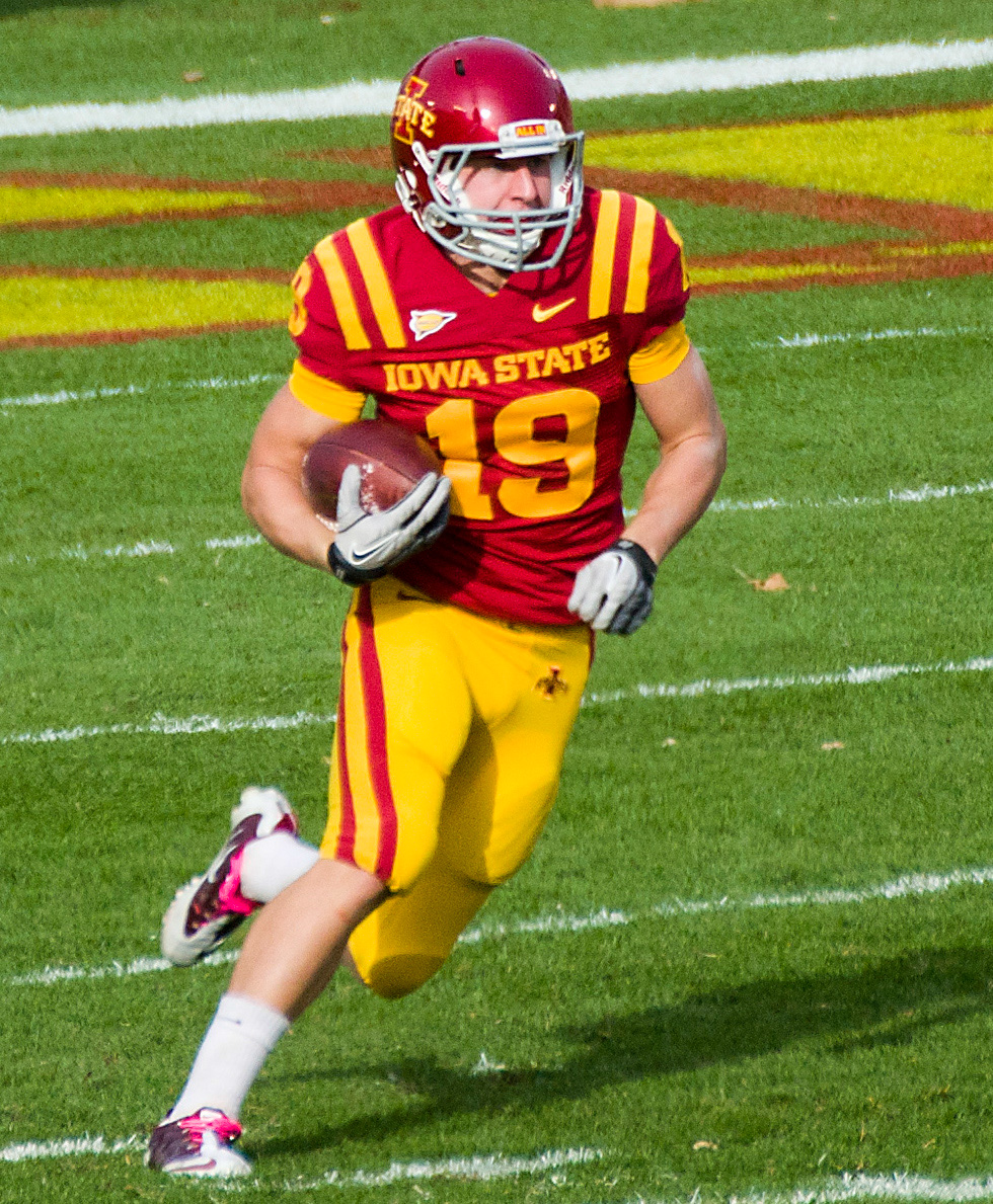 Wide receiver, Josh Lenz, playing for the Iowa State Cyclones in 2011.